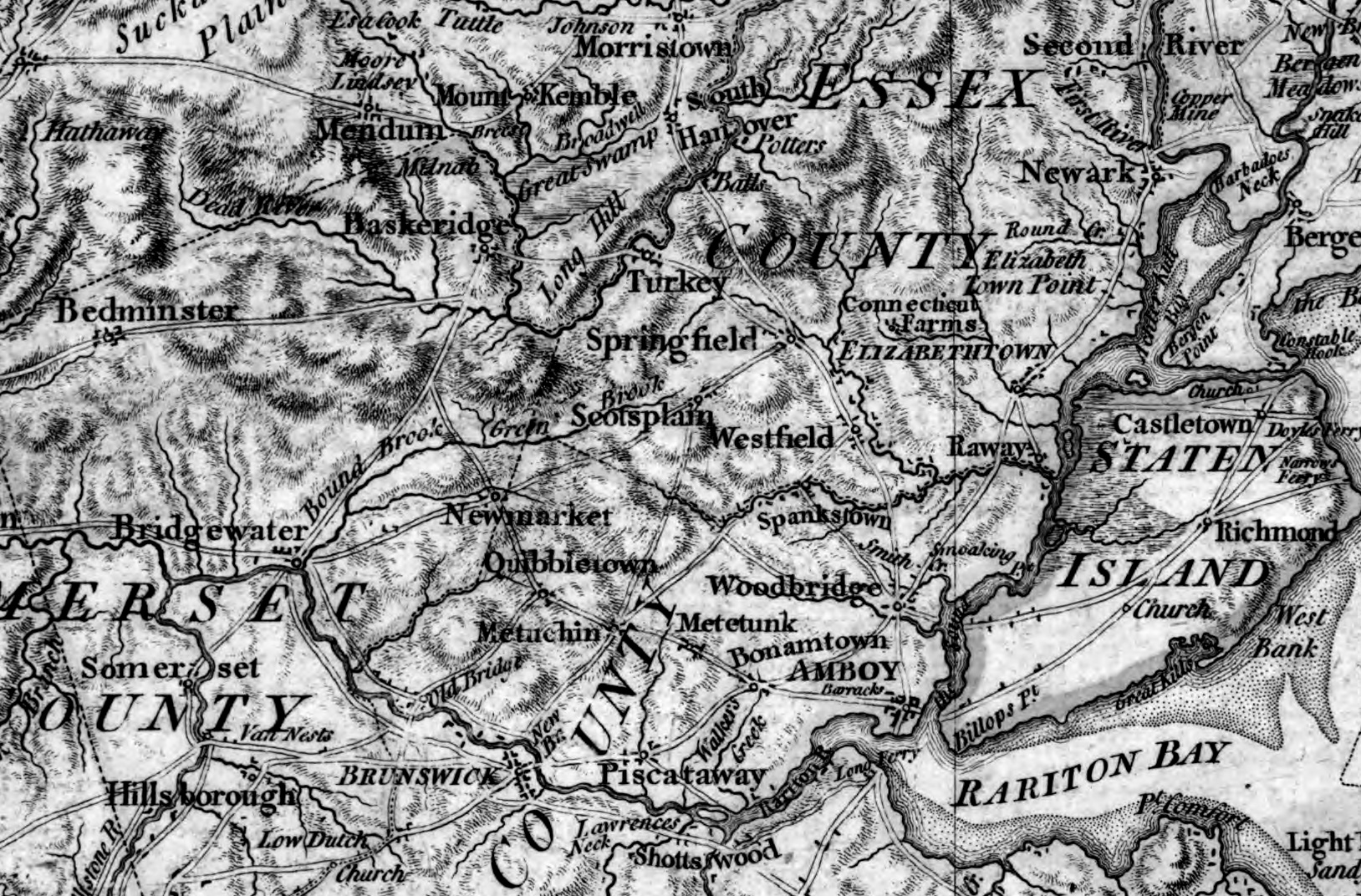 Detail of a 1777 map depicting part of northeastern New Jersey. The area shown was the scene of military activity early in the American Revolutionary War Philadelphia campaign, including the battles of Bound Brook, Short Hills, and Staten Island. In addition to cropping for detail, image has been color and contrast adjusted.